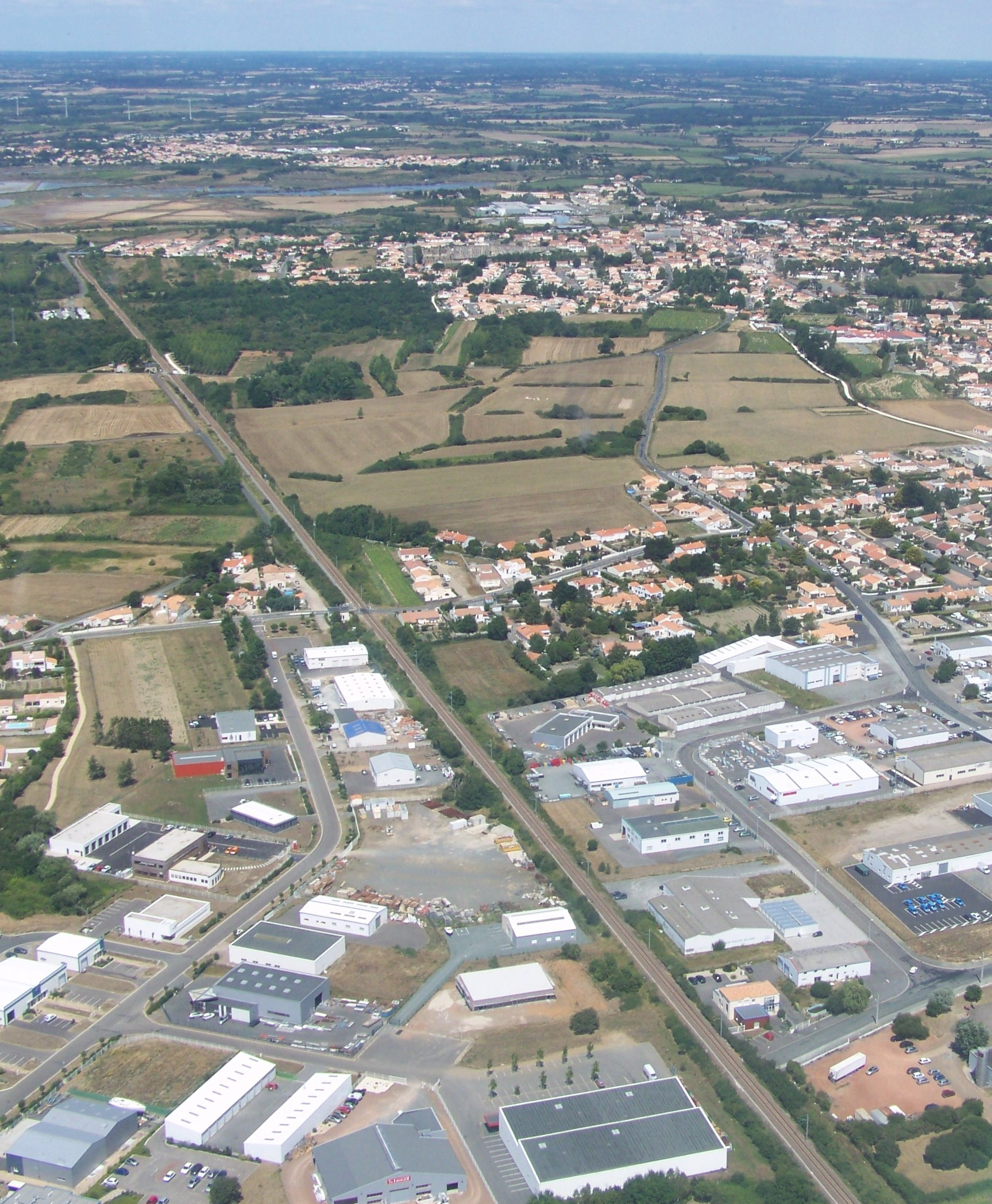 French railway line to Tours (Indre-et-Loire) is just leaving les Sables d'Olonne and is entering Olonne sur Mer in Vendée.